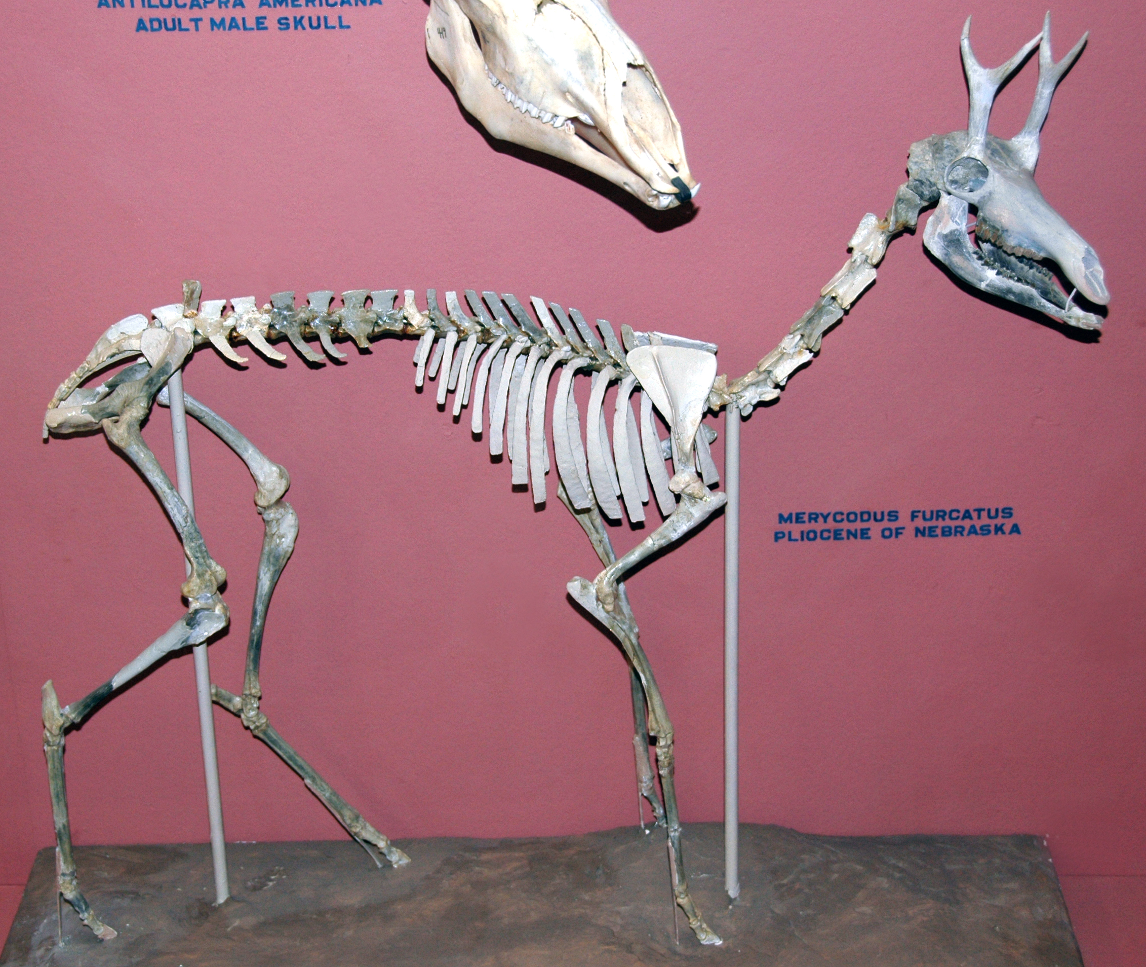 Merycodus furcatus (Leidy, 1869) - fossil mammal skeleton (adult male) from the Pliocene of Nebraska, USA. (public display, University of Wyoming Geological Museum, Laramie, Wyoming, USA) This fossil is an ancestral pronghorn antelope. Classification: Animalia, Chordata, Vertebrata, Mammalia, Artiodactyla, Antilocapridae